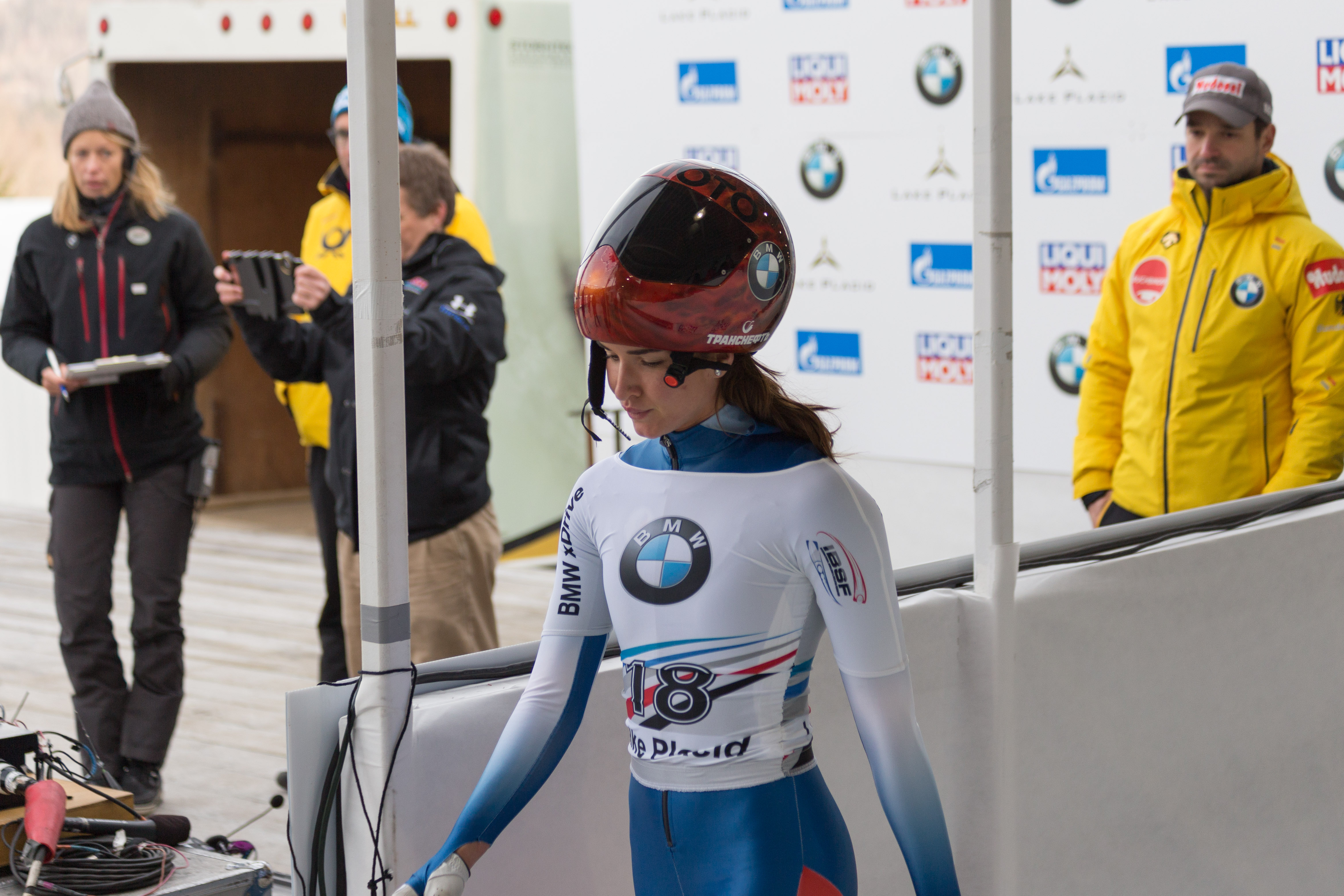 Yulia Kanakina (RUS) is seen at the finish of her first run in the 2017/2018 BMW IBSF World Cup race in Lake Placid. She finished run 1 in 18th place.